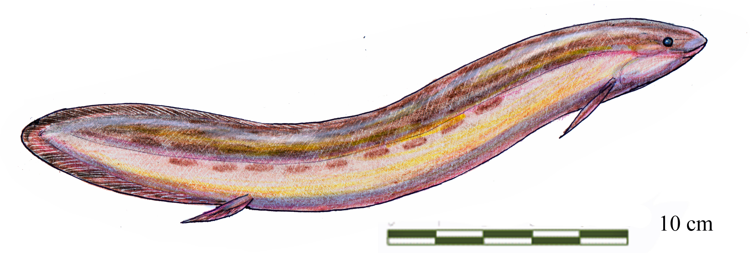 Permotriassic lungfish Gnathorhiza